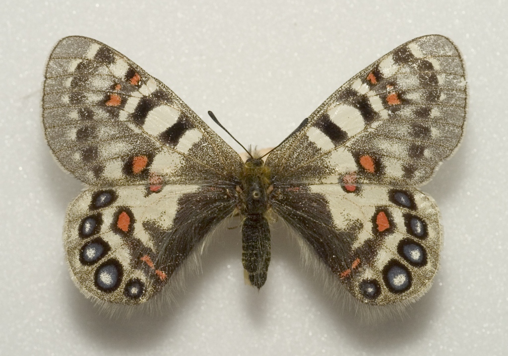 Parnassius hardwickii from the Ulster Museum